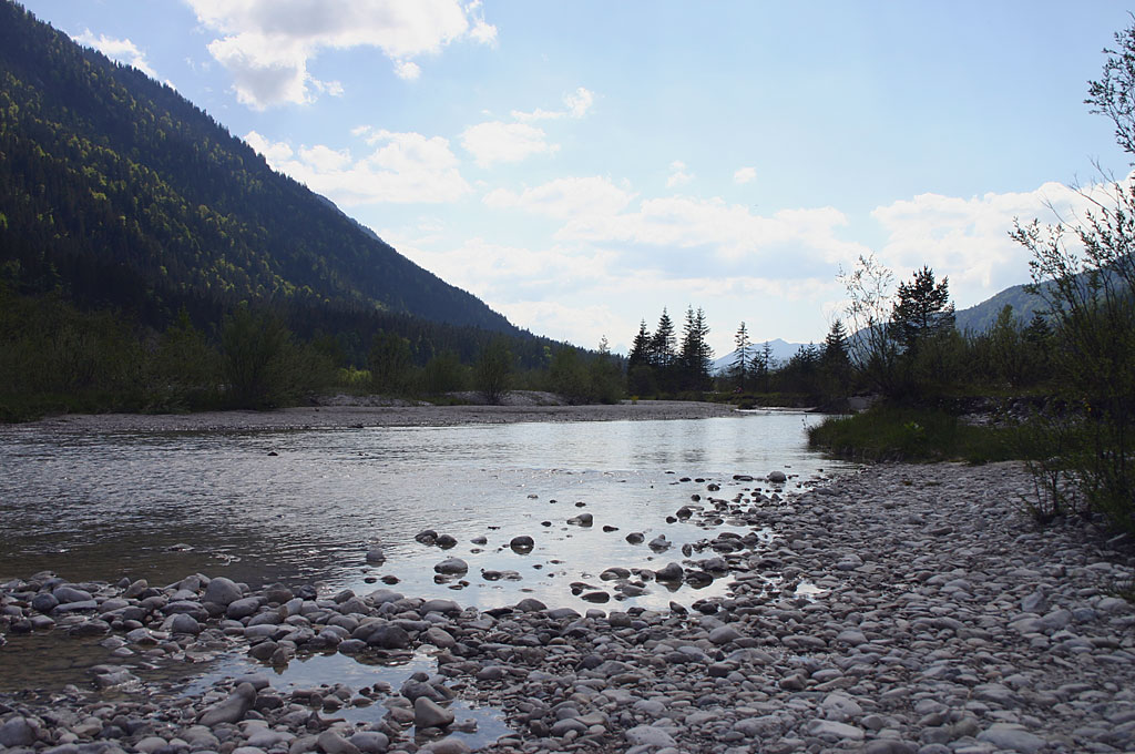 Isar Foto by Softeis